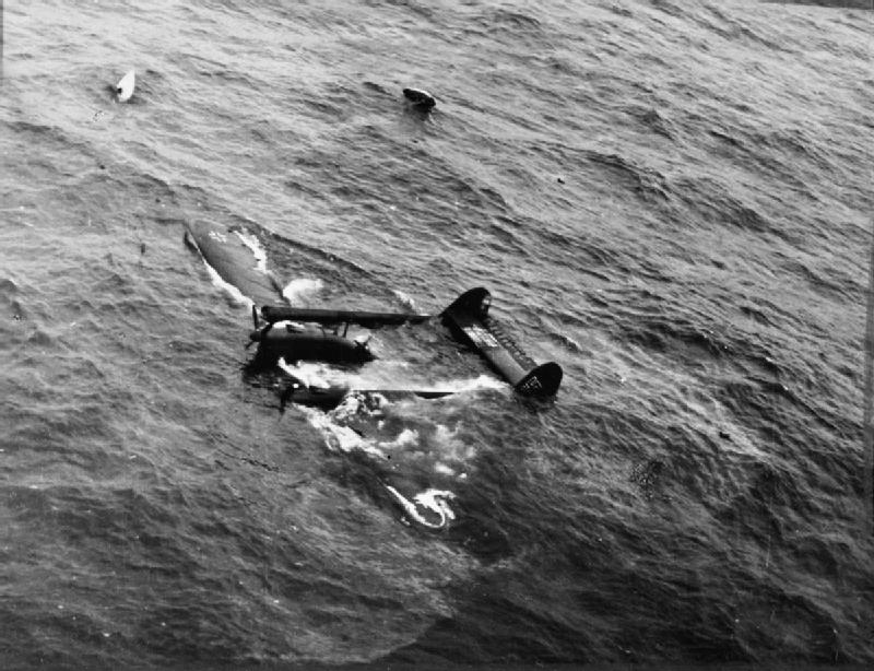 A German Blohm & Voss Bv 138 flying boat settles in the water after being shot down by a Bristol Beaufighter of No. 404 Squadron RCAF while escorting a Naval force off the north coast of Scotland.